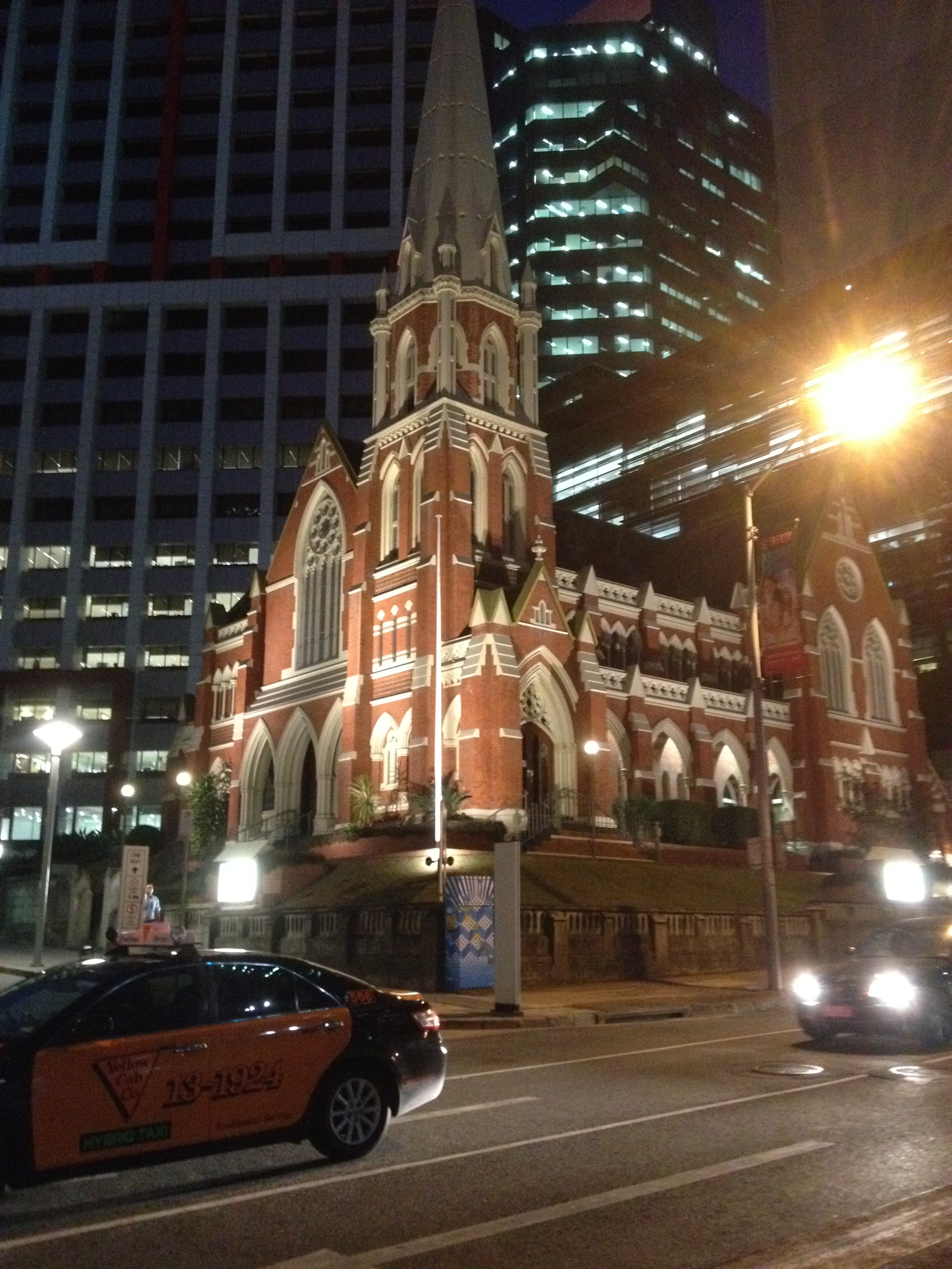 Albert Street Uniting Church, Brisbane at night